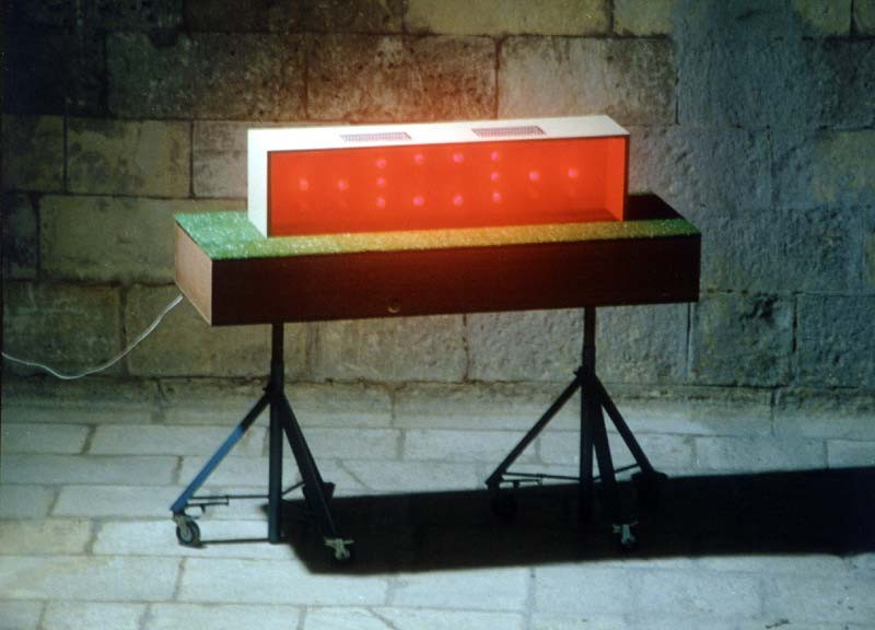 Night Art School, Miguel Soares, 1995